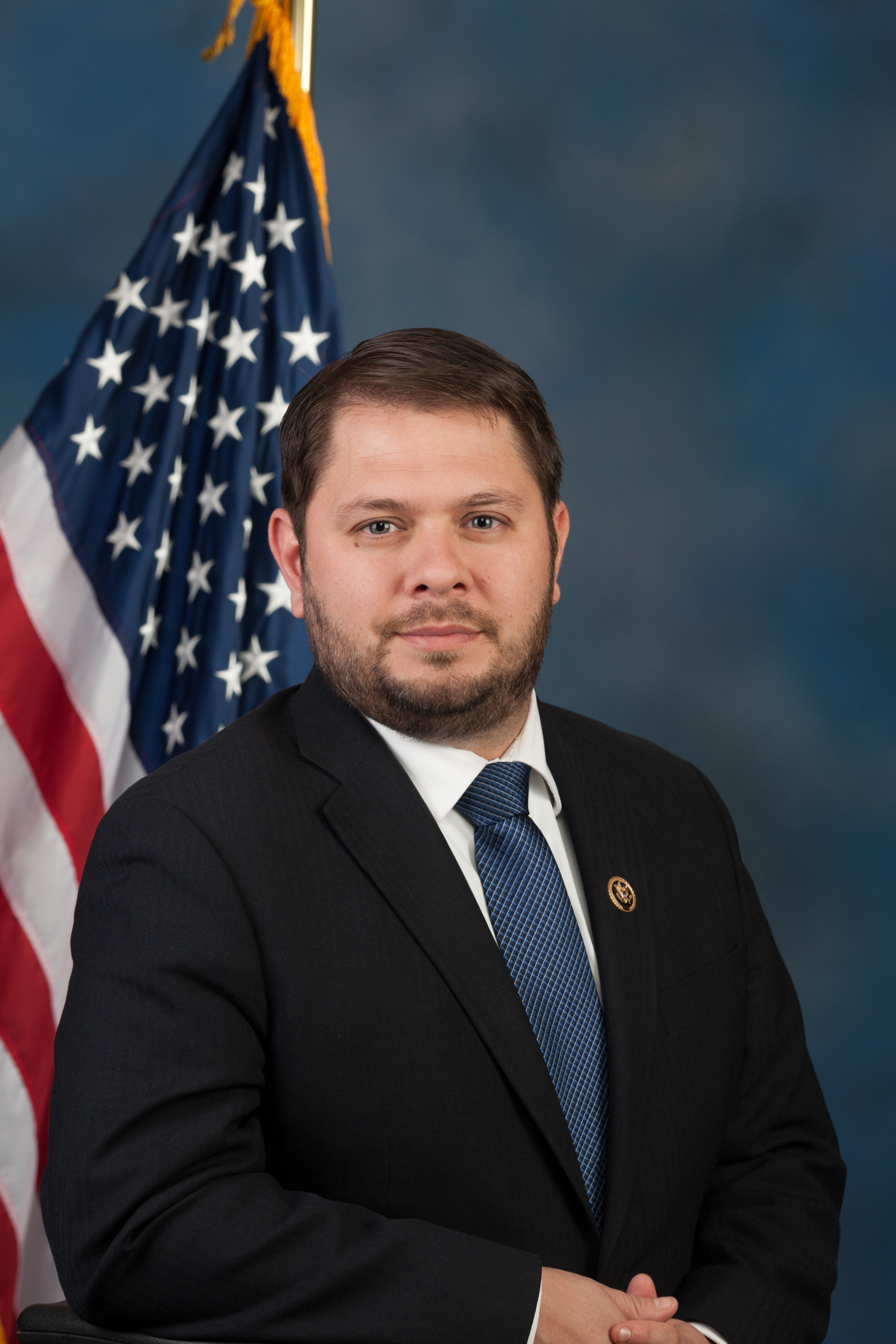 Official congressional portrait of Arizona U.S. Representative Ruben Gallego